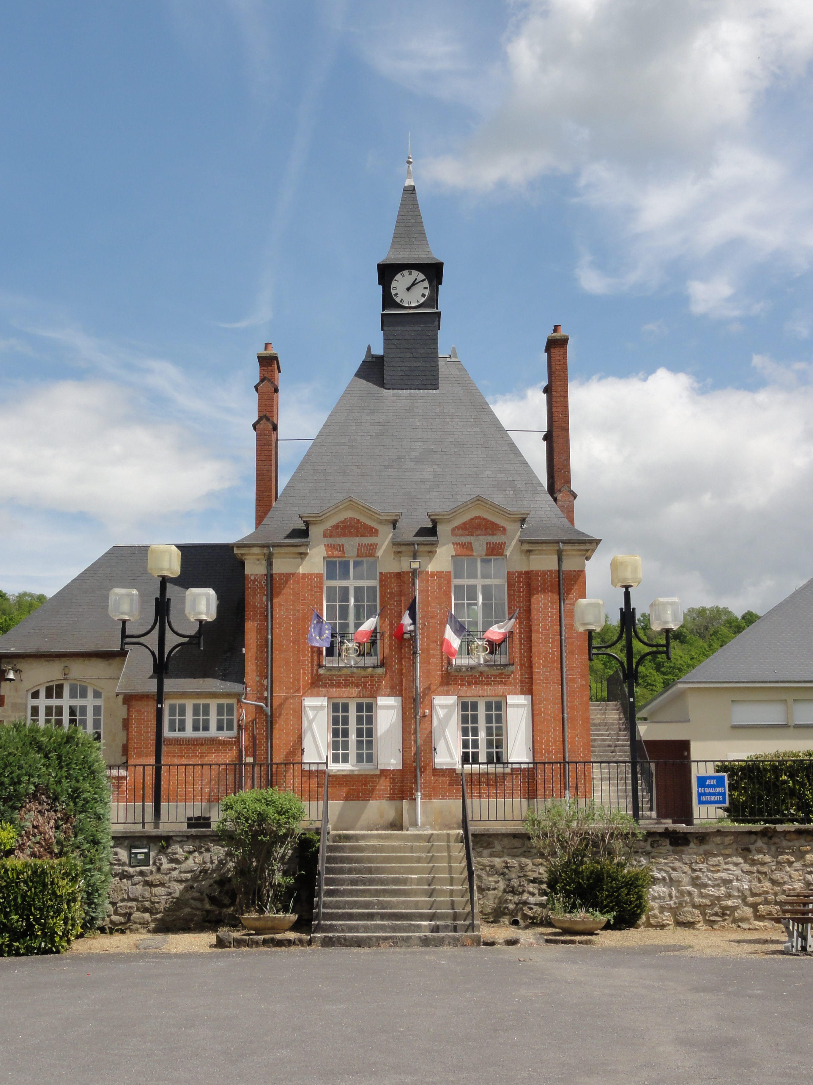 Lizy (Aisne) mairie